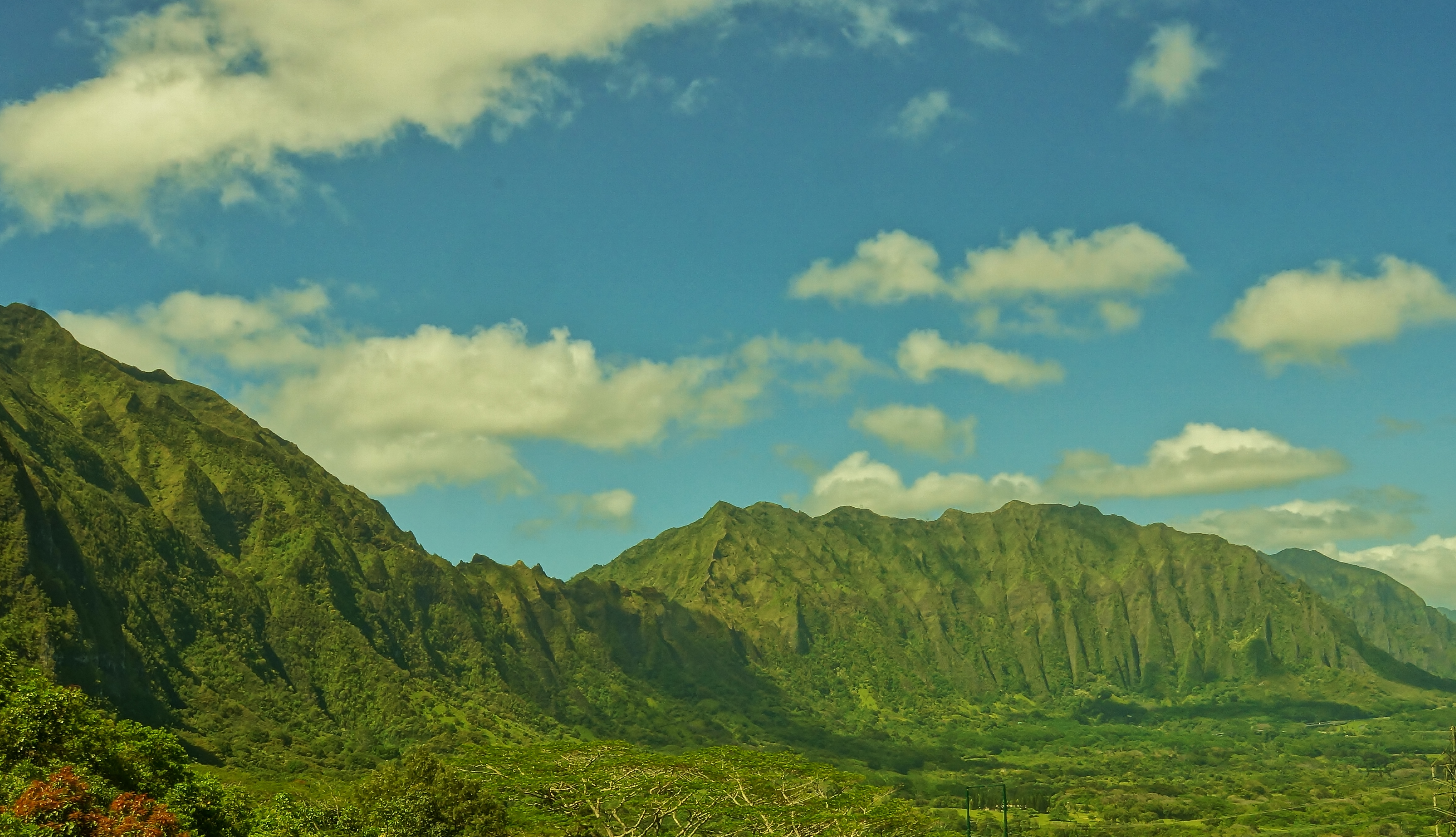 Koolau Mountain from the Pali ≡ Eric Tessmer, Molokai, Hawaii